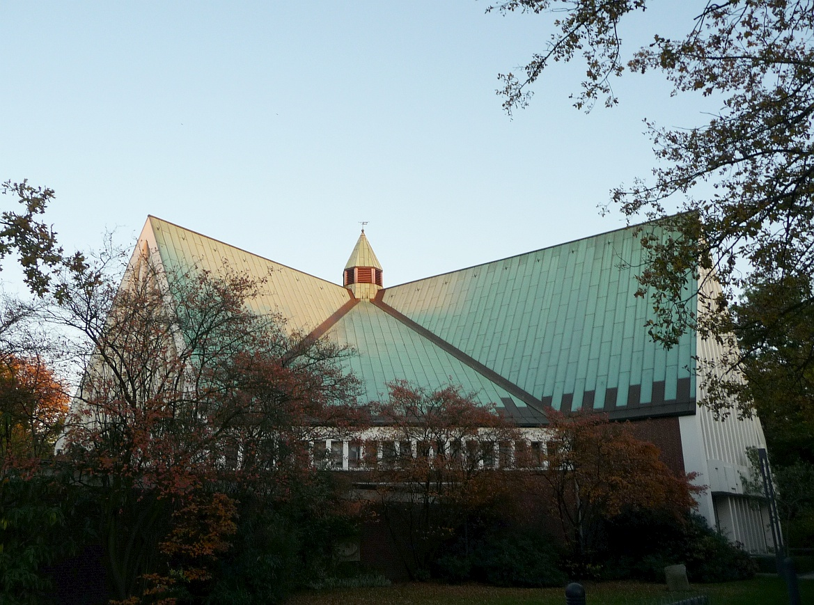 kath. church St. Ursula in Bremen-Schwachhausen